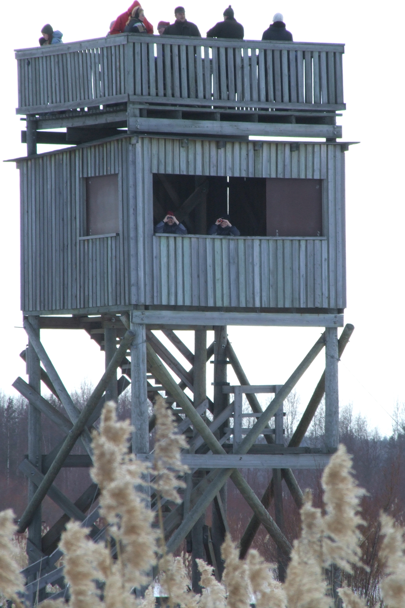 Birdwatchers in a viewing tower in the Bay of Liminka about 20&nbap;km south of Oulu, Finland.